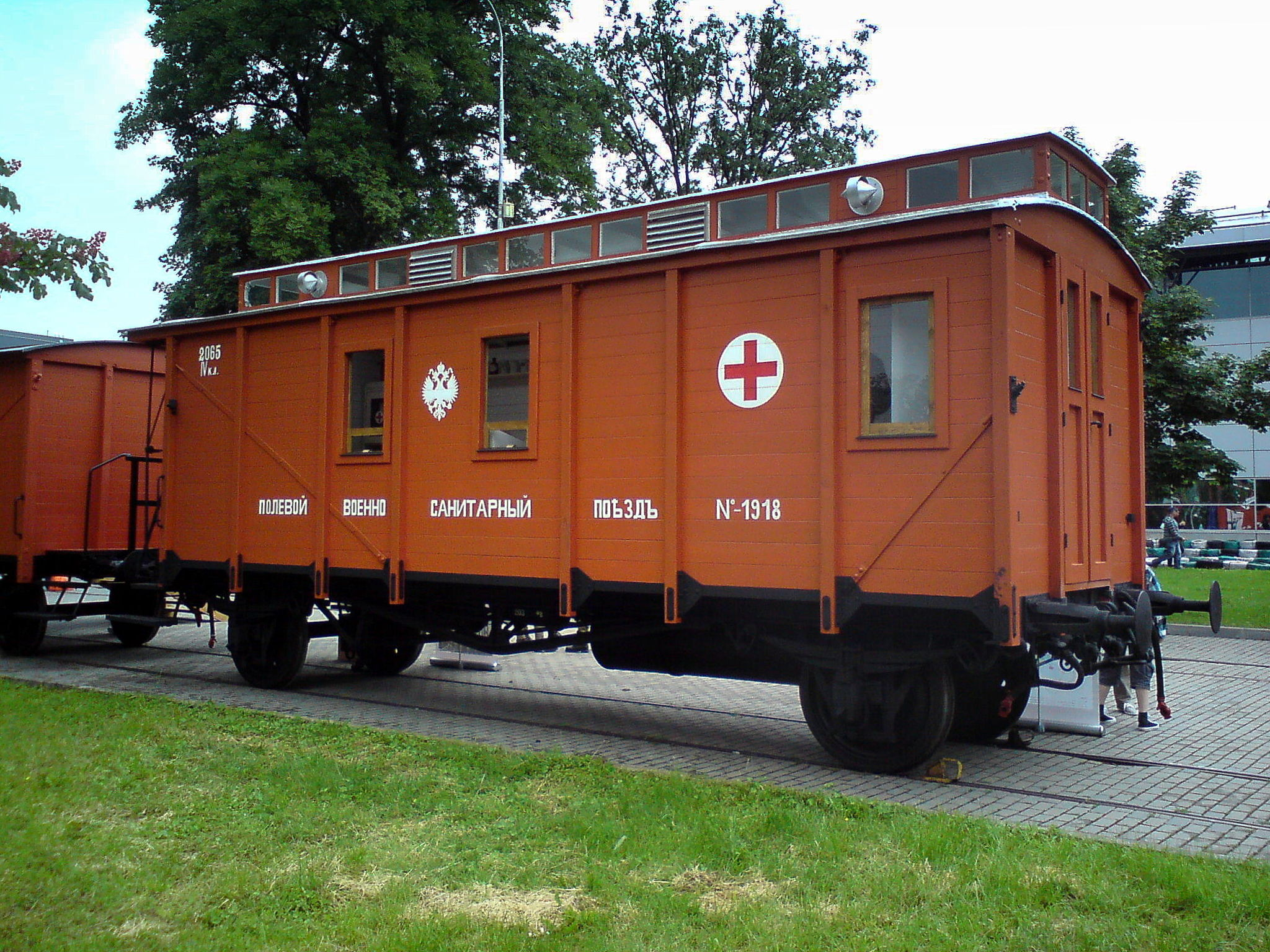 Carriage (replica) of the Czechoslovak Legions.